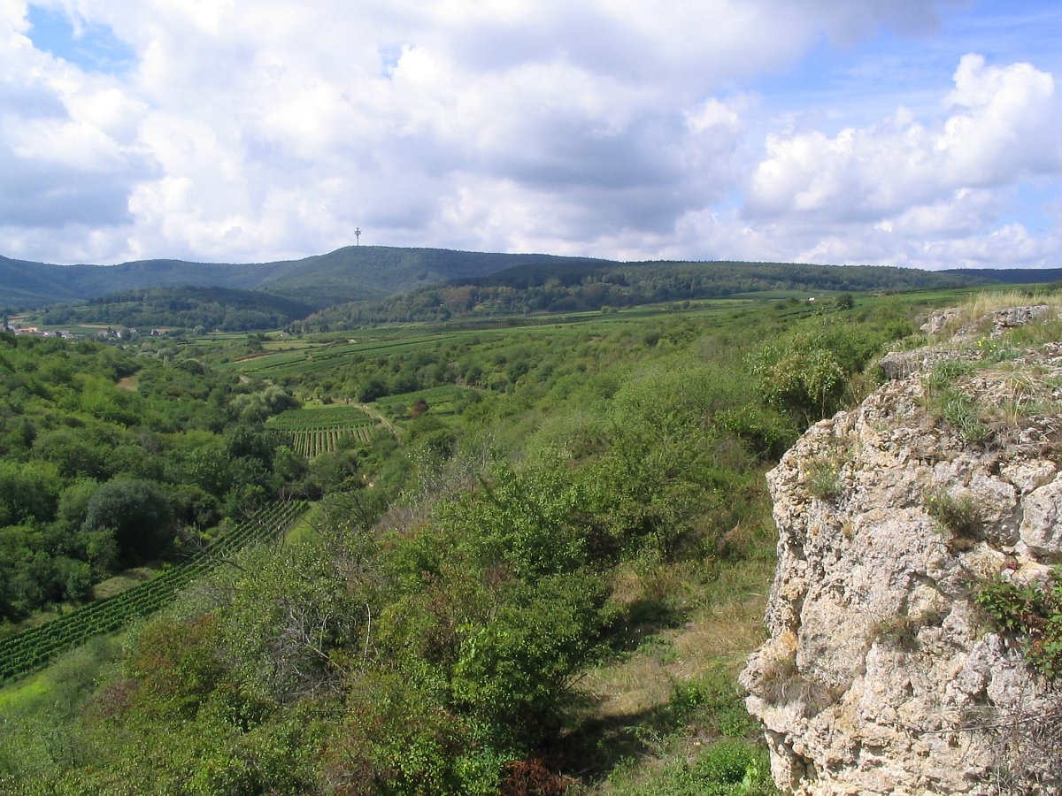 Berntal, view from Fels(en)berg, Herxheim a.B. (Germany)